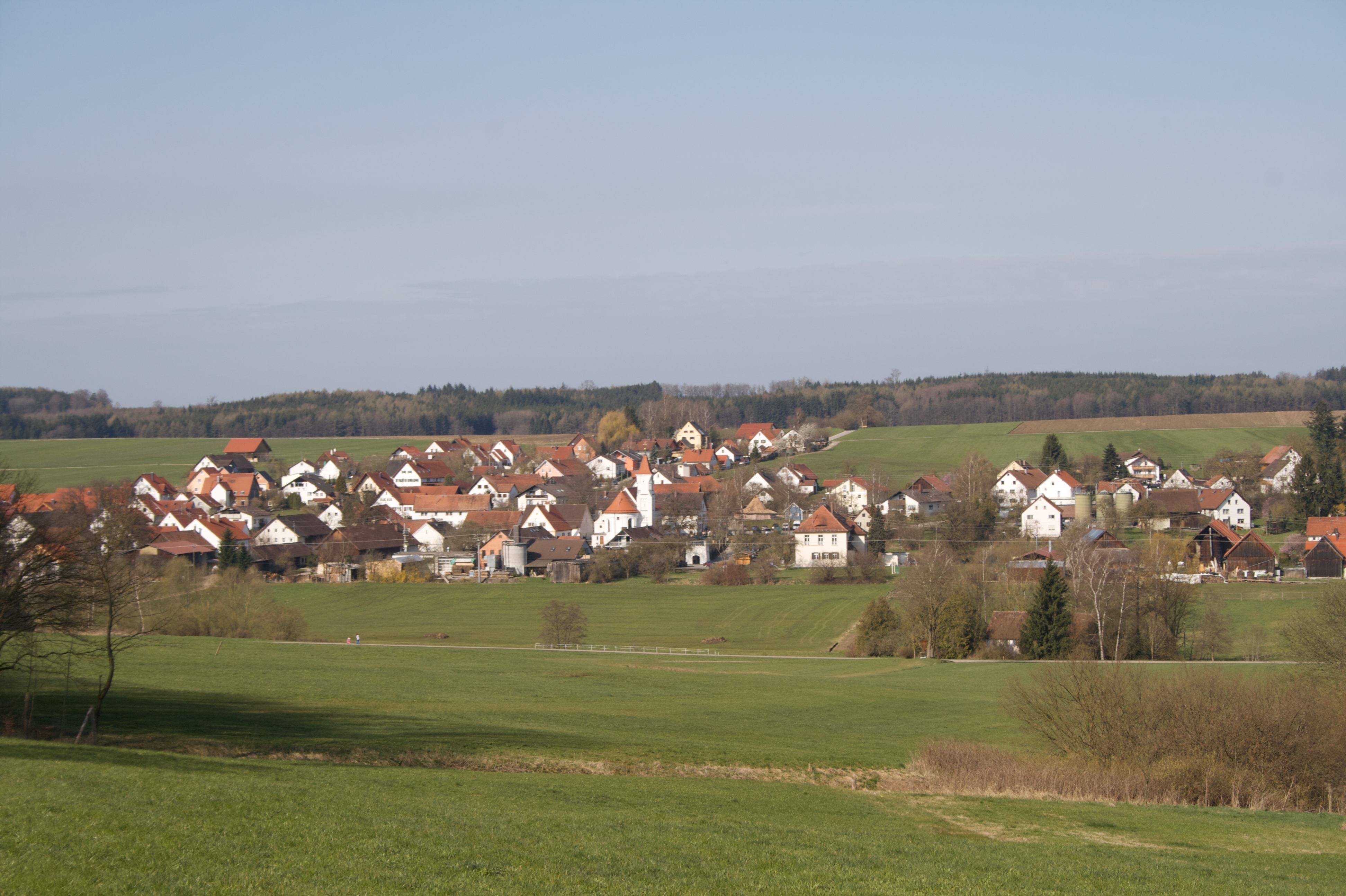 meanpart of bavarian village Scherstetten south of Augsburg